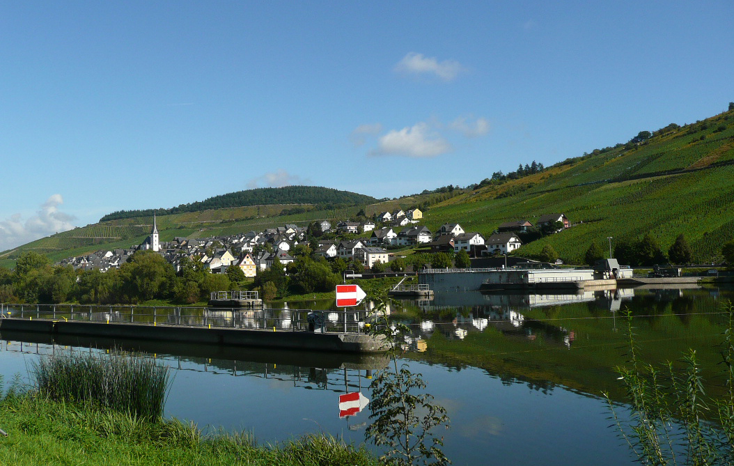 Enkirch village, near the lock and enlargement on the Moselle river.